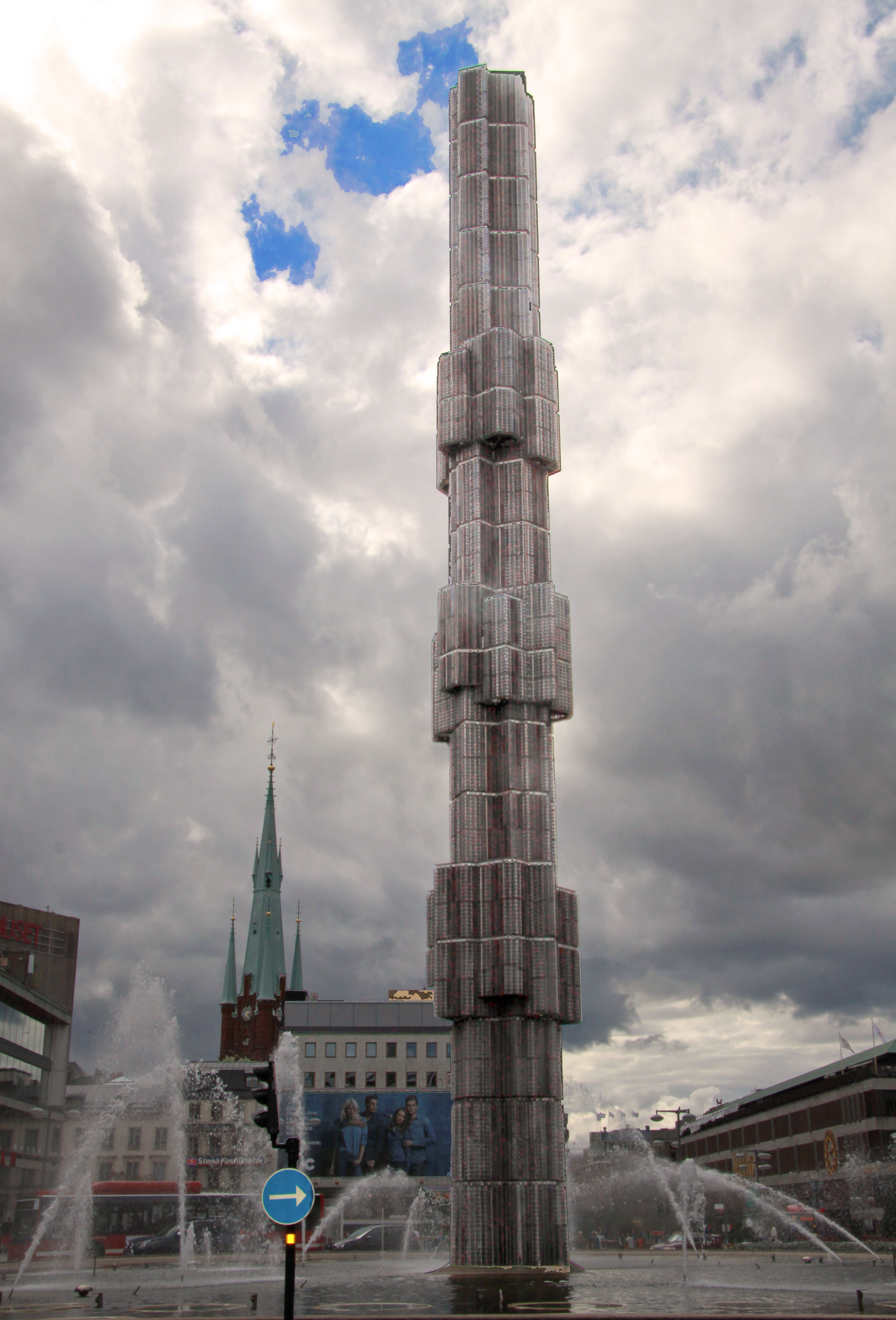 Crystal - vertical accent in glass and steel, by Edvin Öhrström.